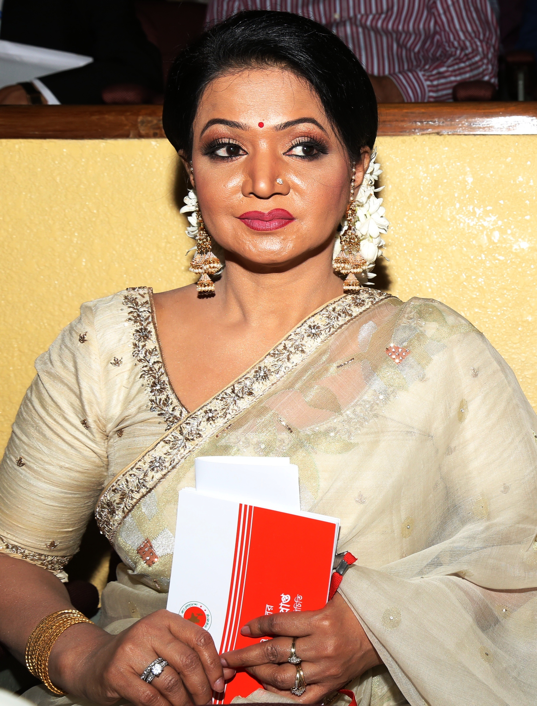 Photo of Bangladeshi classical dancer Shameem Ara Neepa, Dhaka, 2017